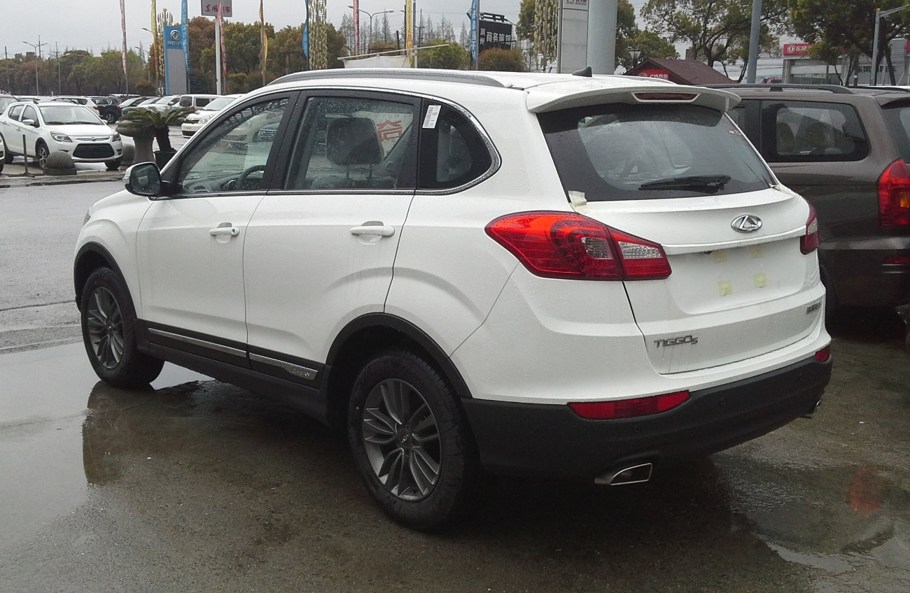 Chery Tiggo 5 photographed in Shanghai, China.